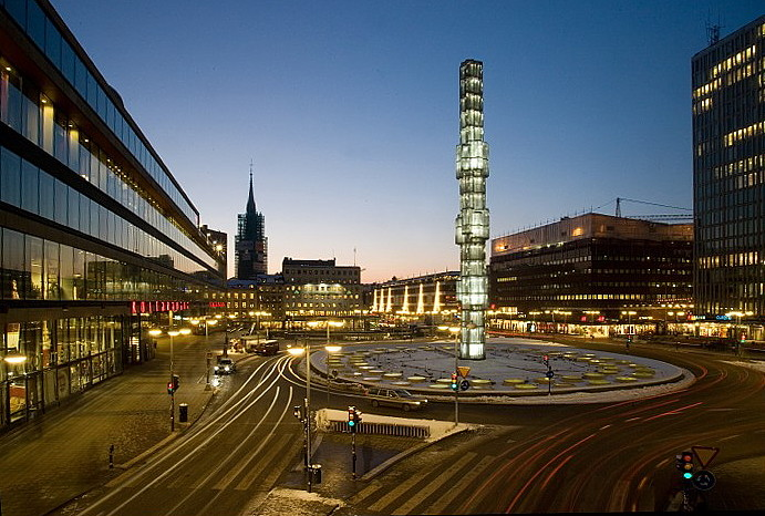 Sergels Torg with Kulturhuset (January 2006).